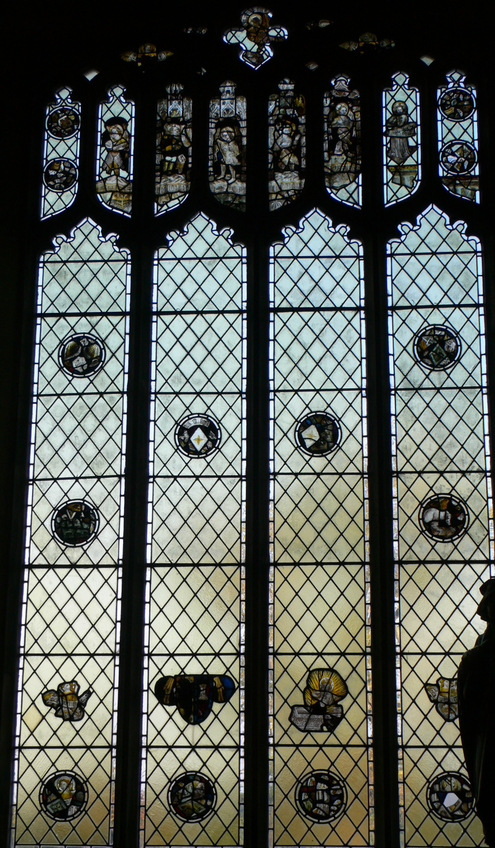 One window in the north aisle of St Nicholas Blakeney contains fragments of 15th century glass including angels with feather tights